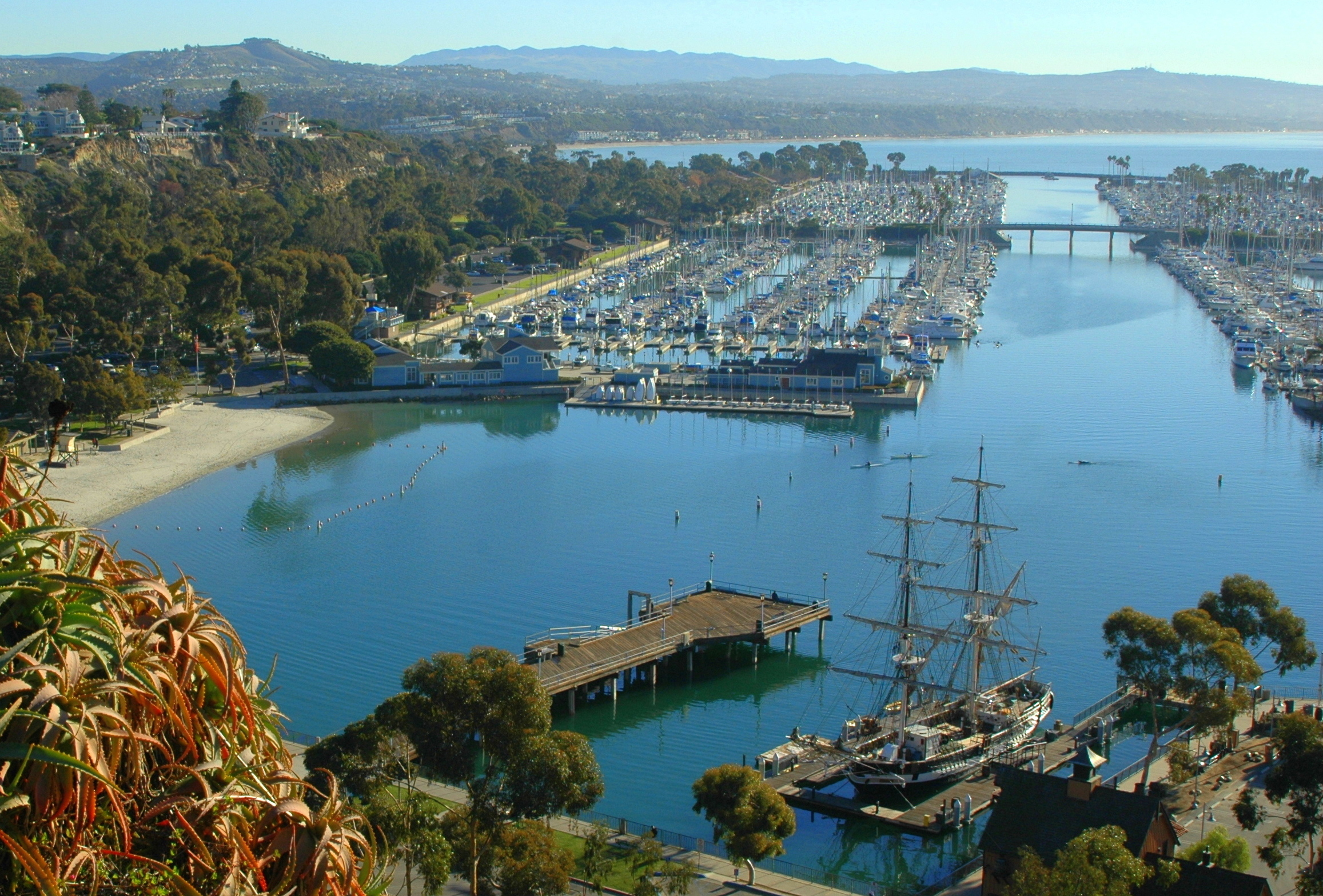 View of Dana Point Harbor with the ship "Spirit of Dana Point" anchored at the Ocean Institute in the foreground.